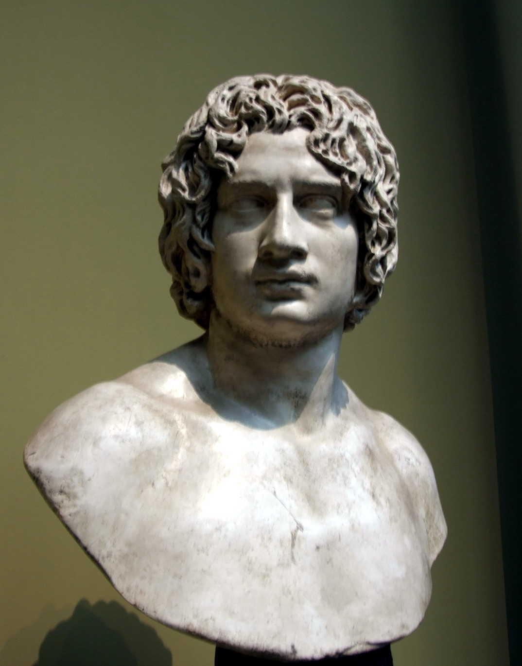 German, so called Arminius. Cast in Pushkin museum after original in Dresden